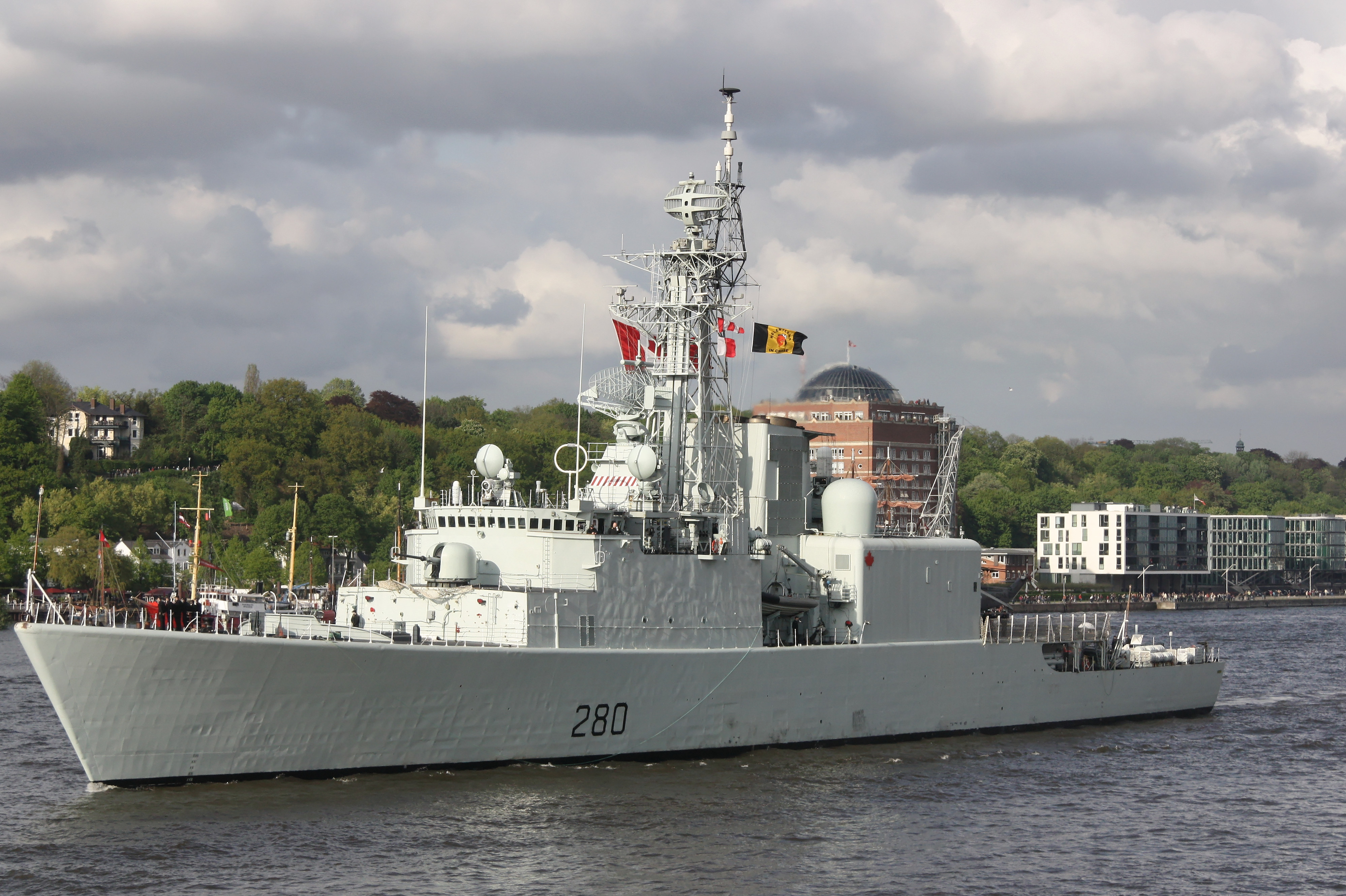 HMCS Iroquois (DDG 280) at Port of Hamburg, near Övelgönne